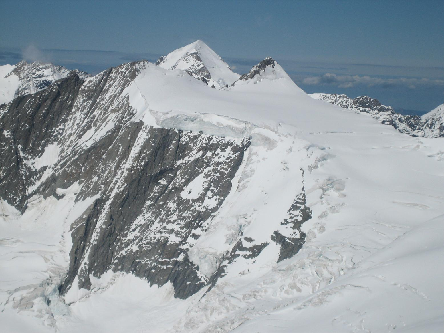 Hinter Fiescherhorn (left) et Gross Fiescherhorn (right), with the Mönch in the background in between.